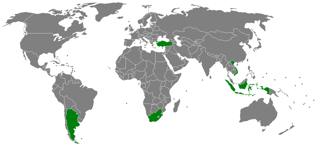 VISTA(economics)